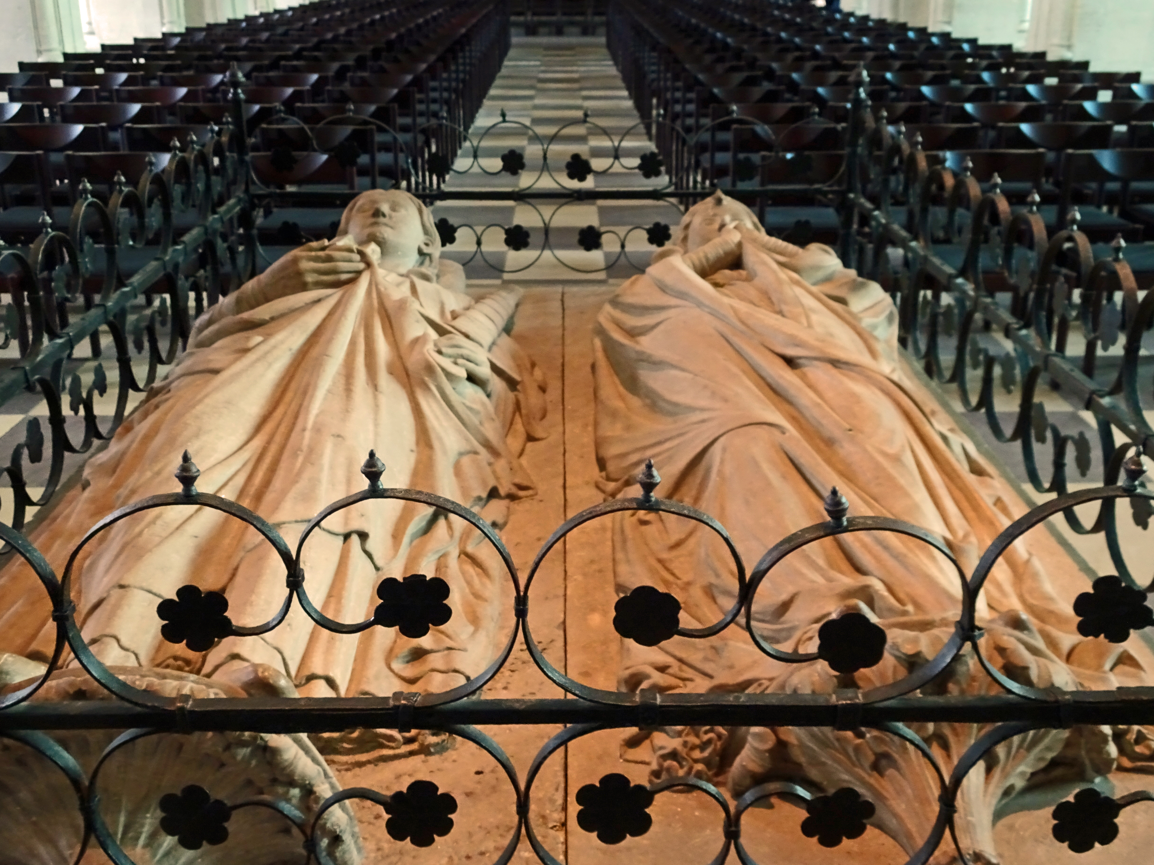 Tomb of Henry the Lion and Mathilda in the Brunswick Cathedral, made of Elmkalkstein.